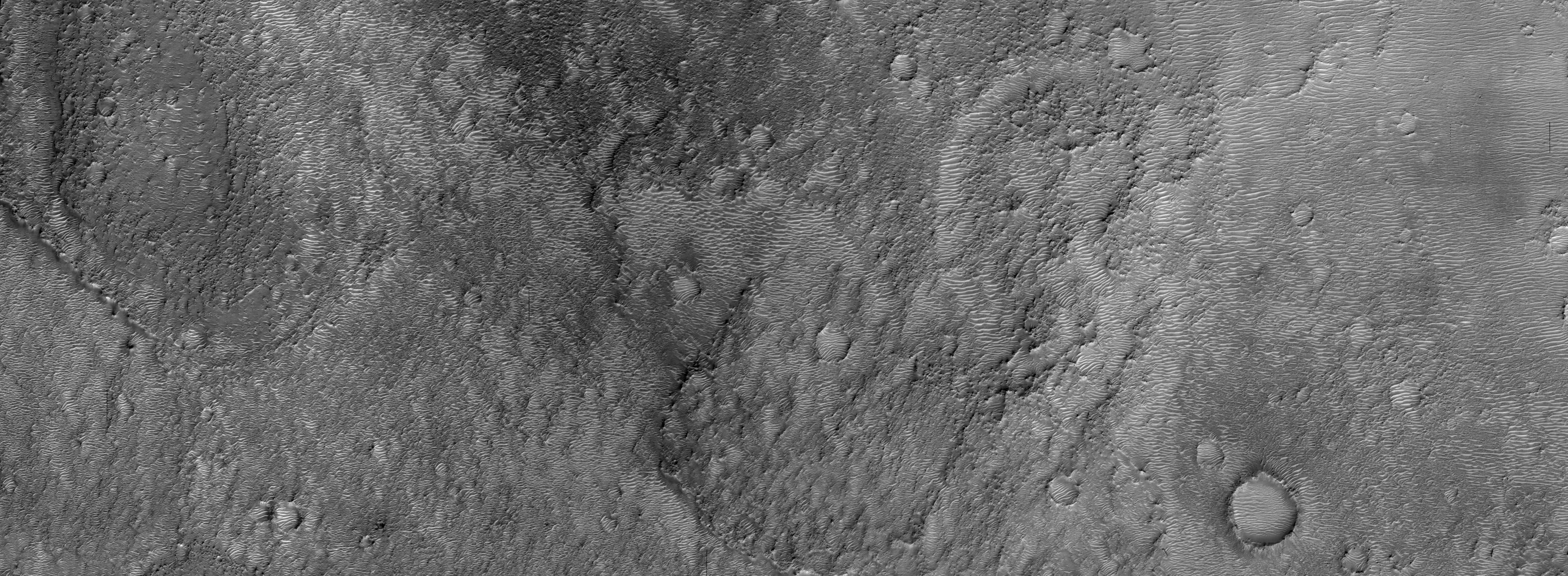 PIA19303: A Possible Landing Site for the 2020 Mission: Jezero Crater It's not only when trying to find a scientifically interesting place to land that the high-resolution images from HiRISE come in handy: it's also to identify potential hazards within a landing ellipse. This is one of the trickier aspects of selecting landing sites on Mars: a place to do good science but also where the risks of landing are low. Jezero Crater is an ancient crater where clay minerals have been detected, and with a delta deposit indicating that water was once flowing into a lake. Since clays form the in presence of water, this crater would be a very good candidate for a lander to explore and build on what we've learned from the Mars Science Laboratory. Could some form of ancient life have existed here and for how long? This image shows a possible landing site for the 2020 Mission: Jezero Crater, as seen by NASA's Mars Reconnaissance Orbiter. North-northwest is to the left. The location depicted is in the southeast quadrant of Jezero Crater. NOTE Drbogdan (talk) 17:07, 10 March 2015 (UTC): Original image rotated & cropped via JASC Paint Shop Pro, v6.02